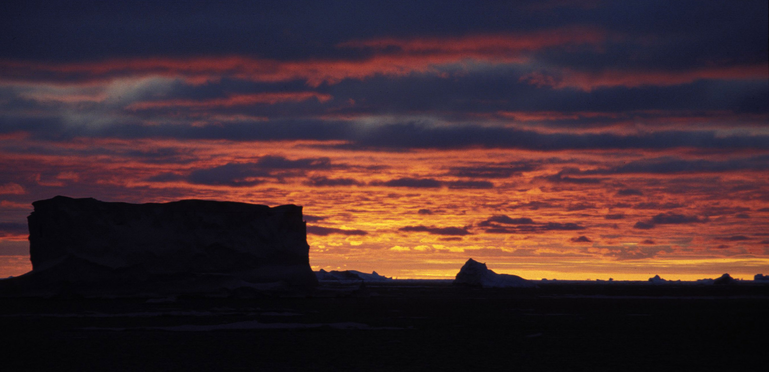 Sunset in the Southern Ocean, Antarctica